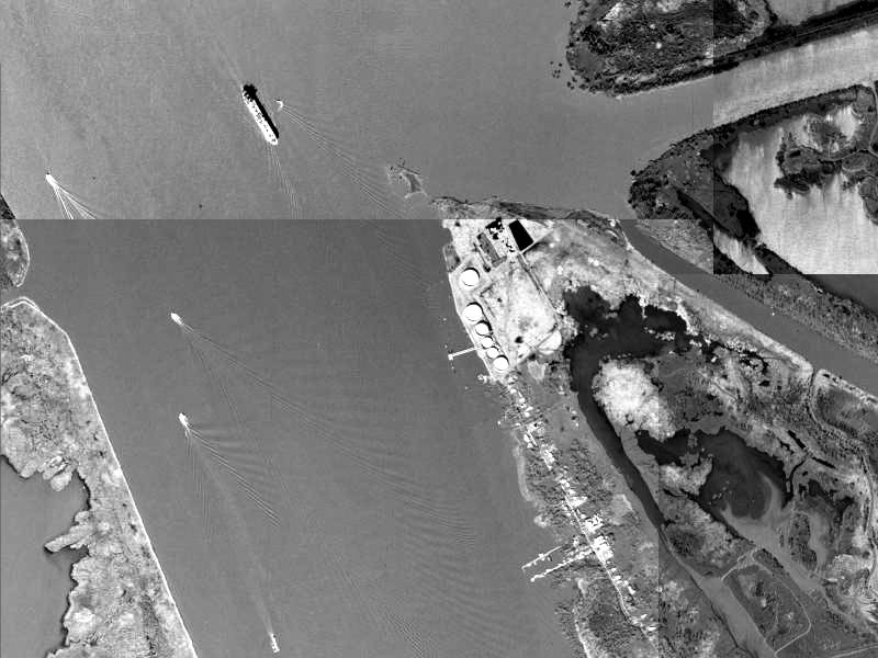 Aerial image of Pilottown, Louisiana, lower Mississippi River delta.